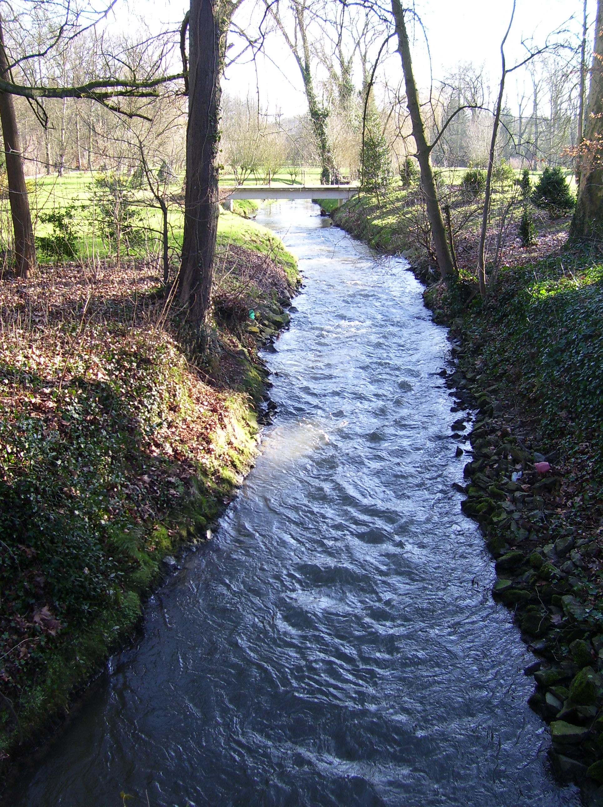 River Thyle in Court-Saint-Etienne, Belgium